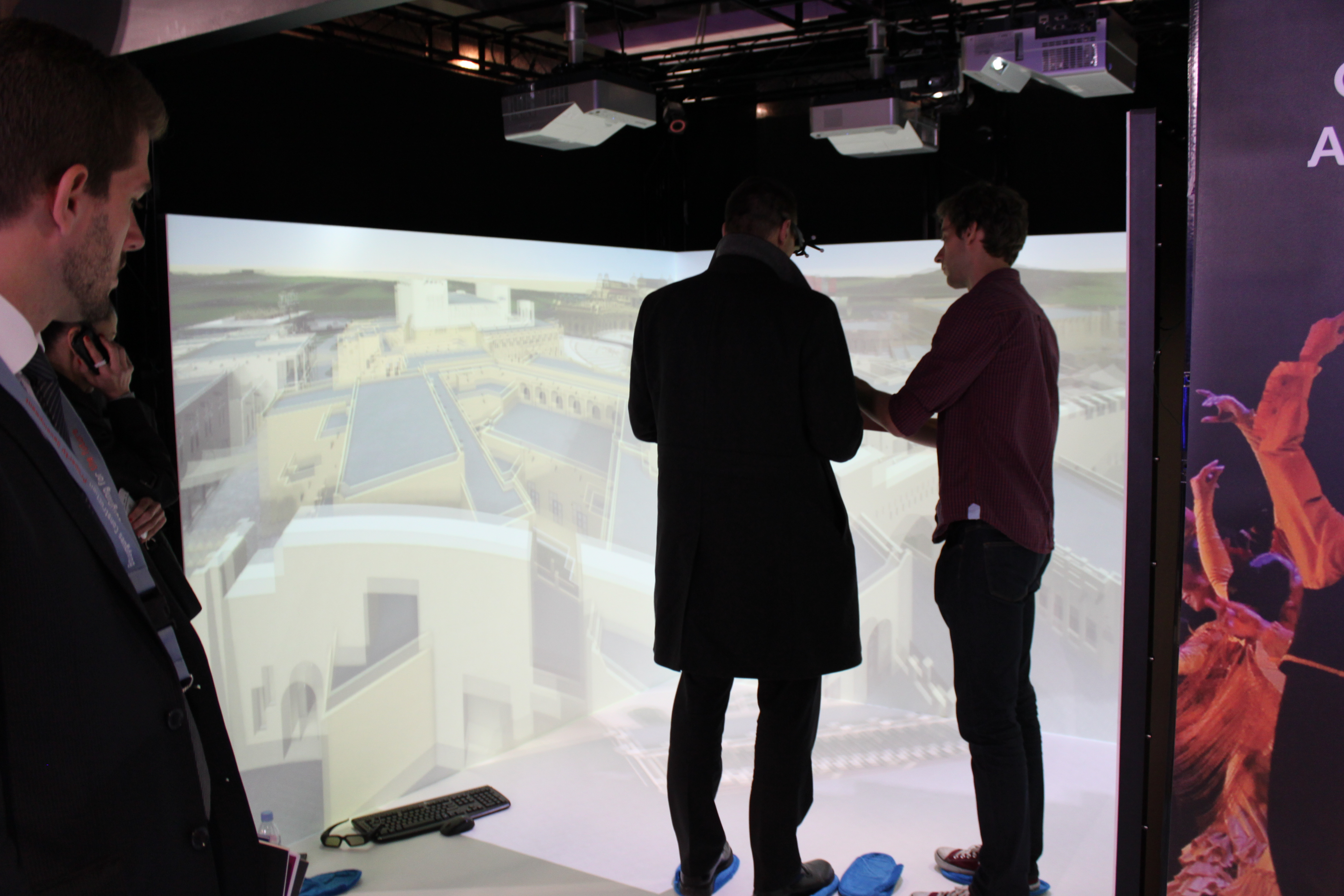 EON ICube Mobile on MIPIM-2013